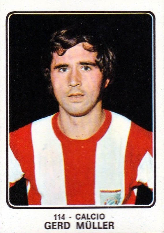 FIGURINA CAMPIONI DELLO SPORT PANINI 1973/74 - GERD MULLER - NUOVA CON VELINA